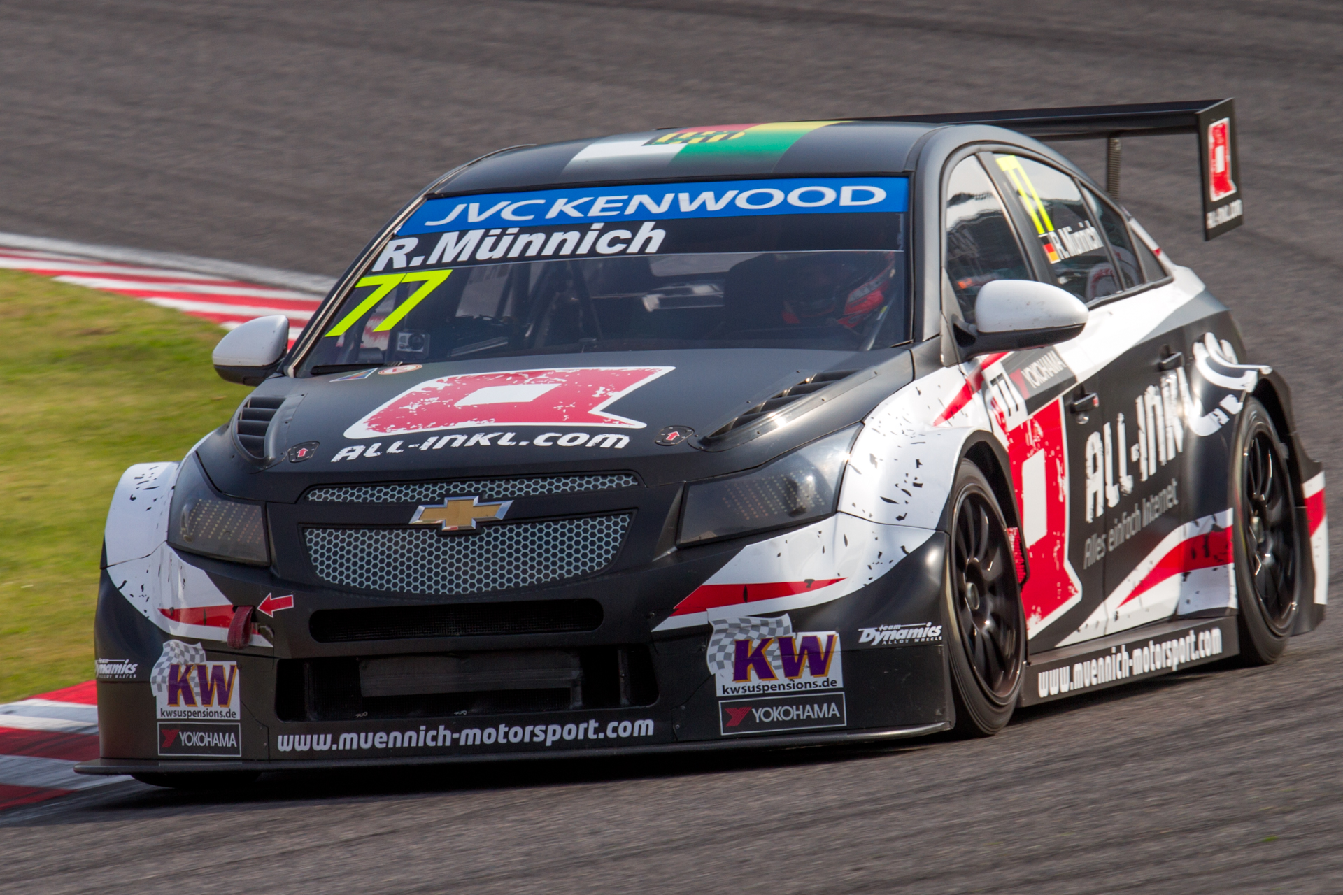 World Touring Car Championship 2014 Race of Japan: René Münnich (Münnich Motorsport)